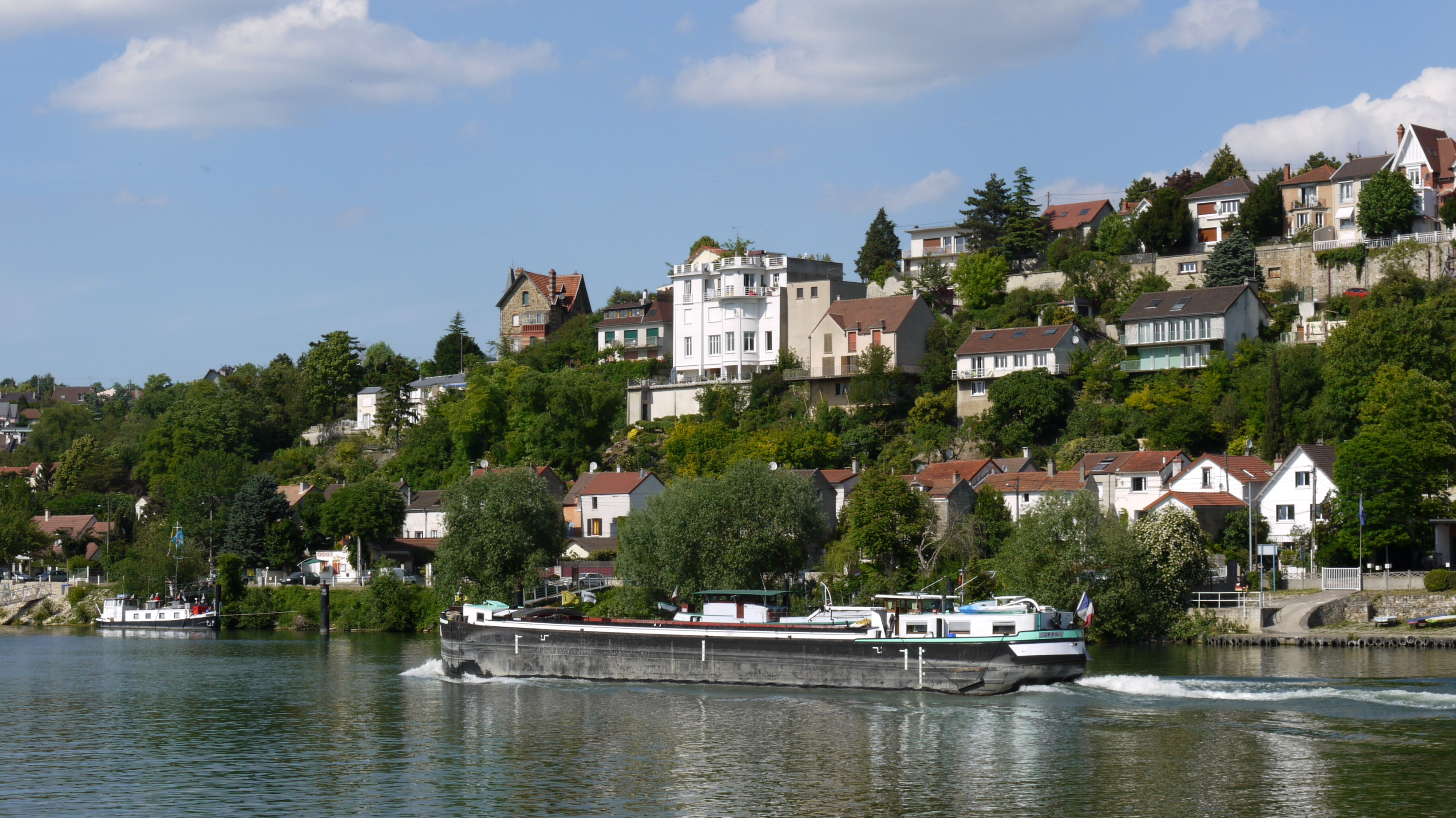 The river Seine at La Frette sur Seine (France)